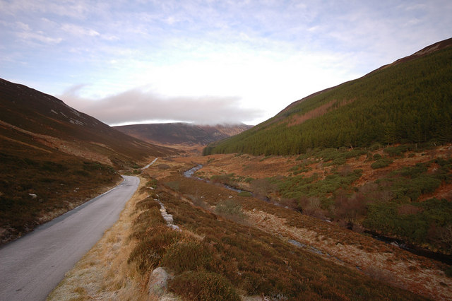 Glen Loth The view up Glen Loth. The road is ungritted in winter - i.e. slippy in cold weather!